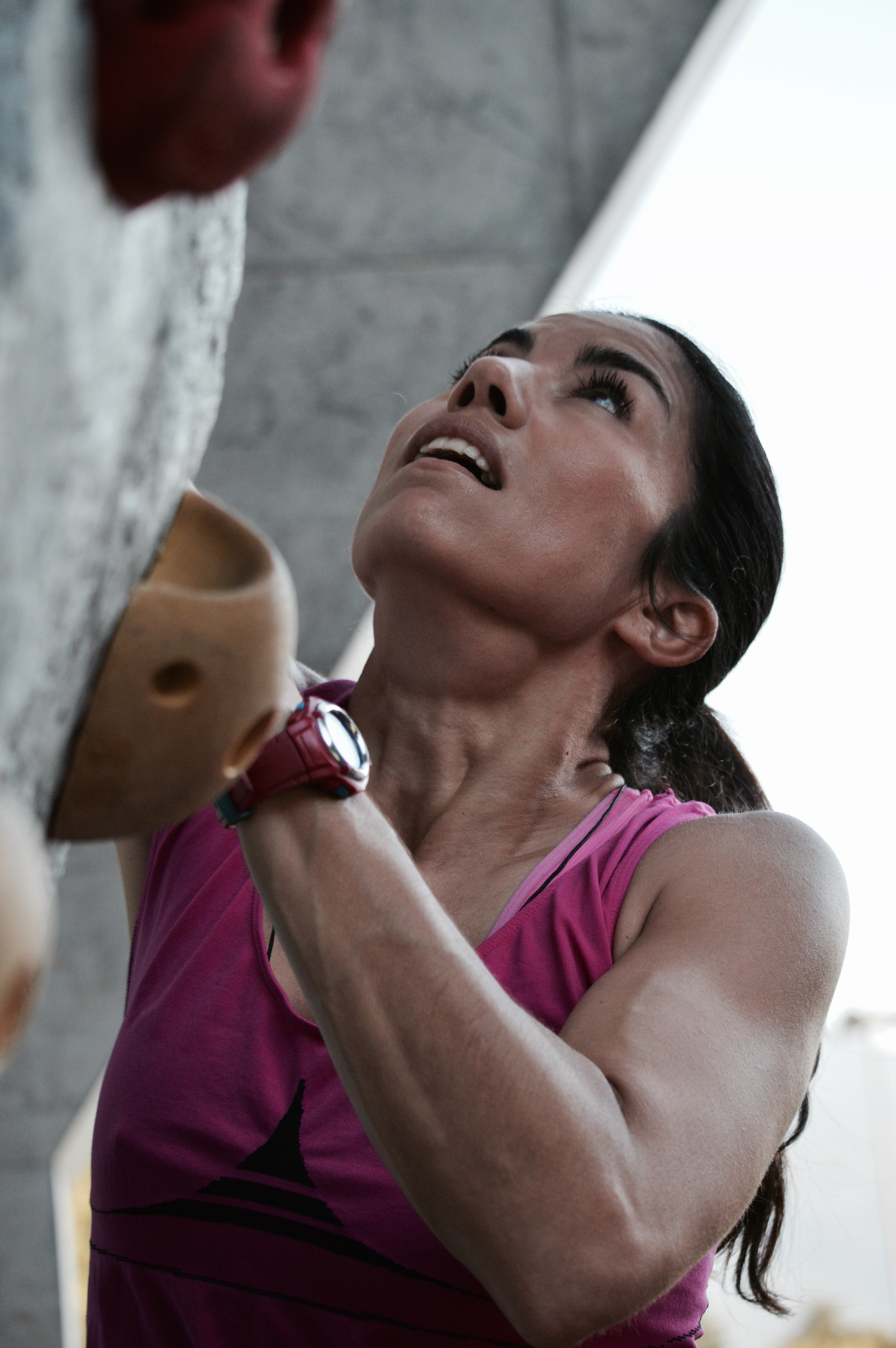 Daniela Scalia in an action scene